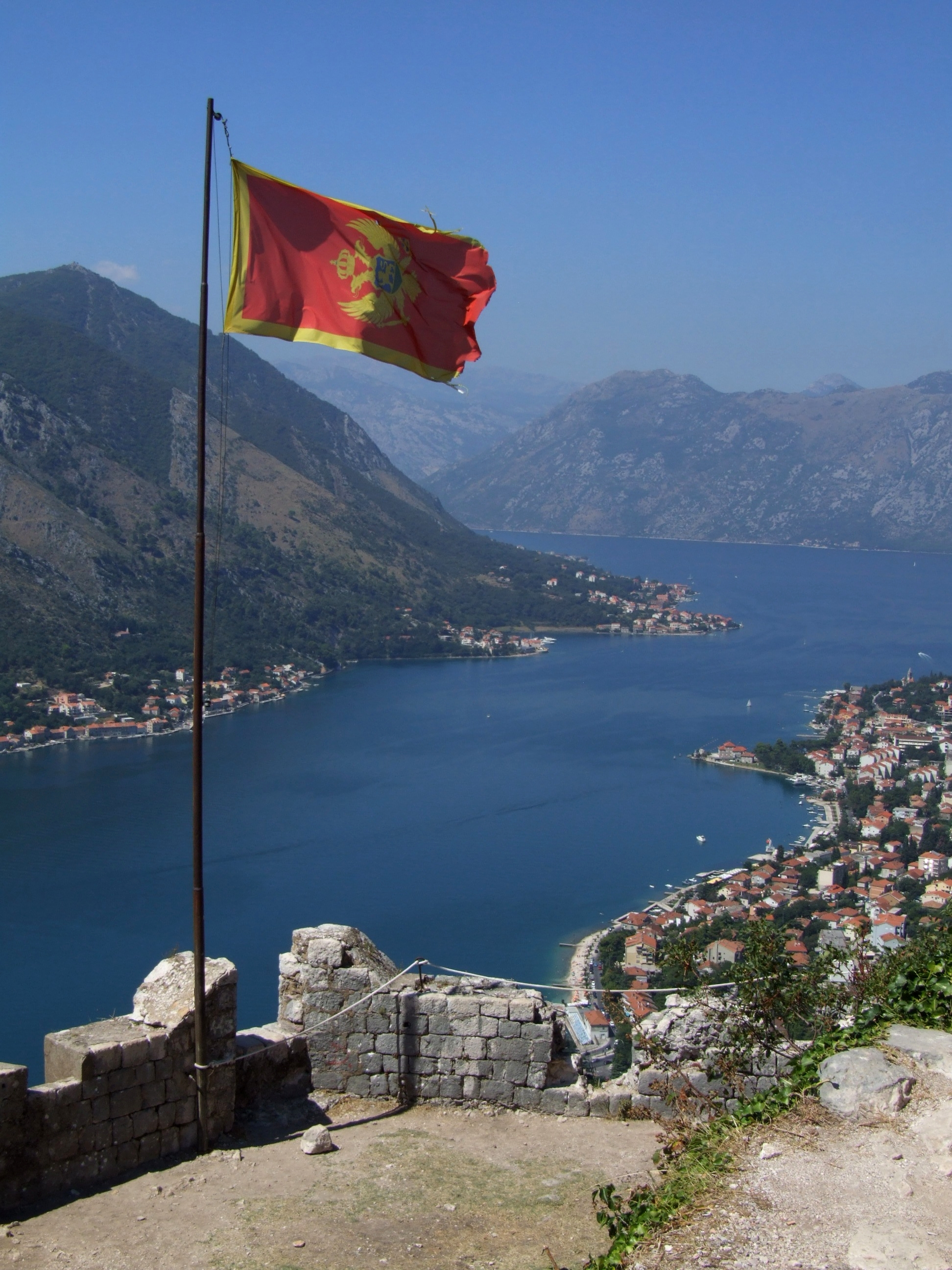 Flag of Montenegro - St. John castle, Kotor city wall